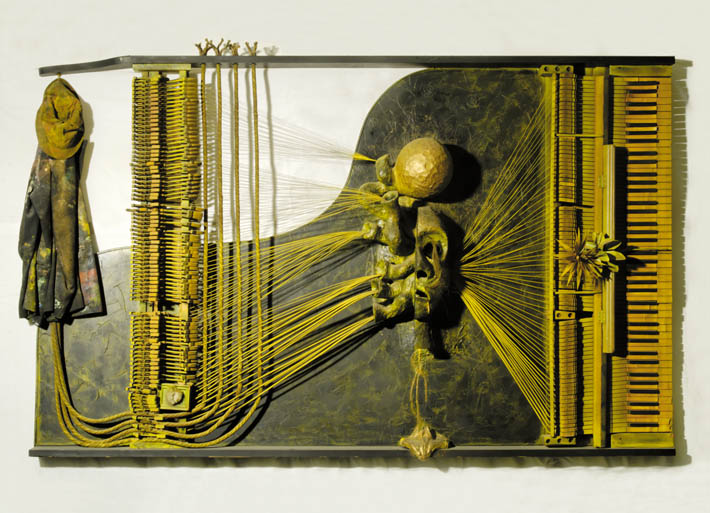 Lubo Kristek: Metastation of Abandoned Tones, 1975-6, assemblage, 132x212x30 cm